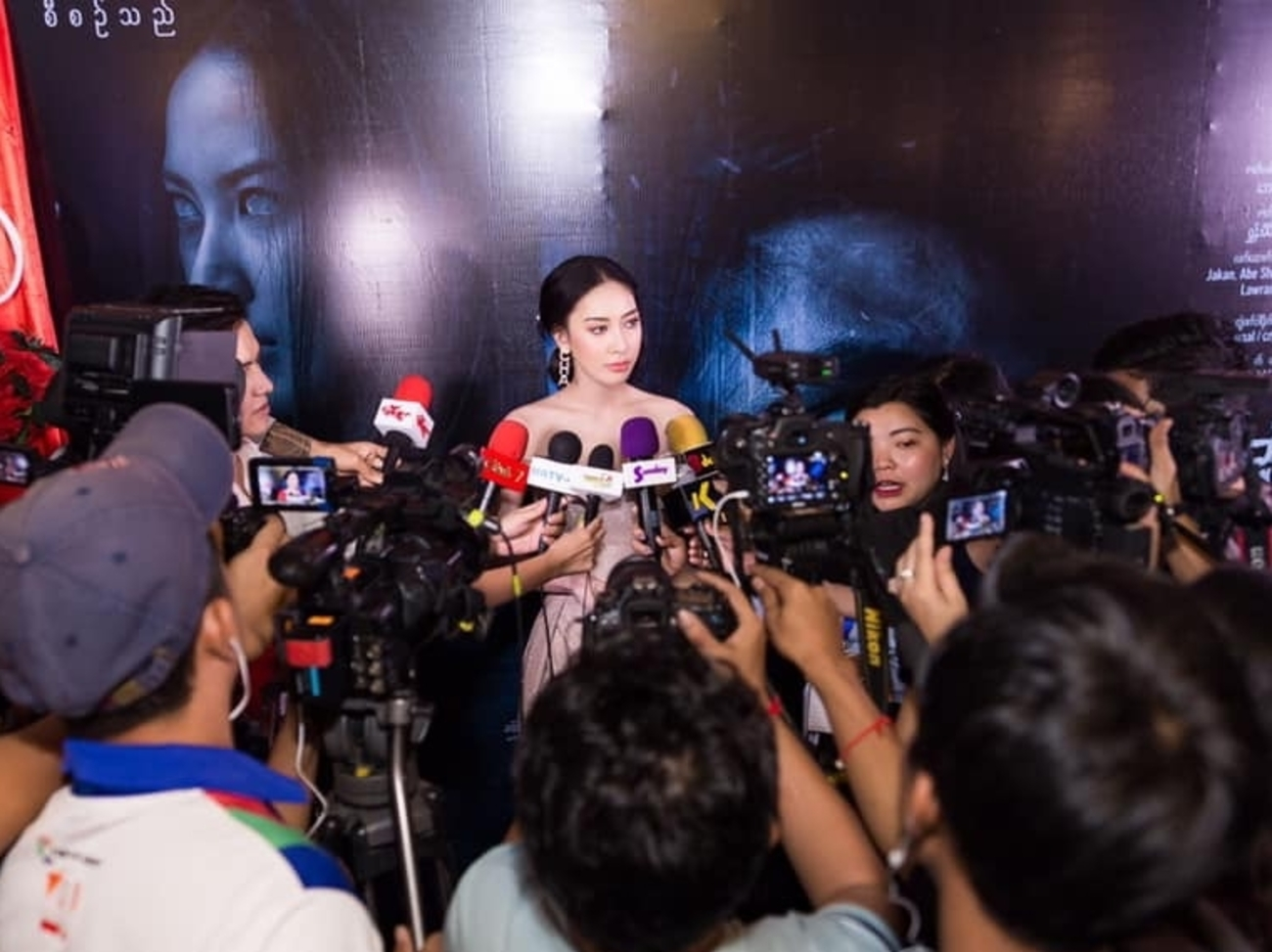 Patricia is a Burmese actress